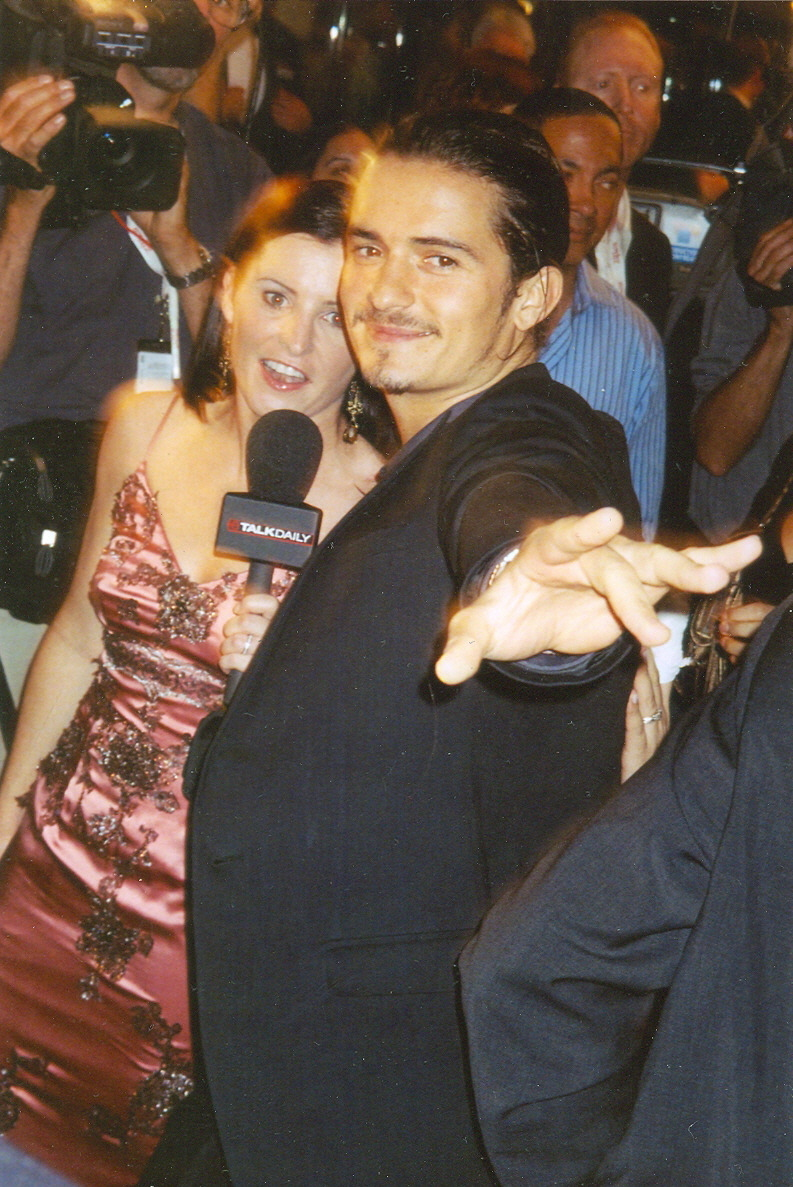 Orlando Bloom at the 2005 Toronto International Film Festival promoting Elizabethtown.Elizabethtown_001